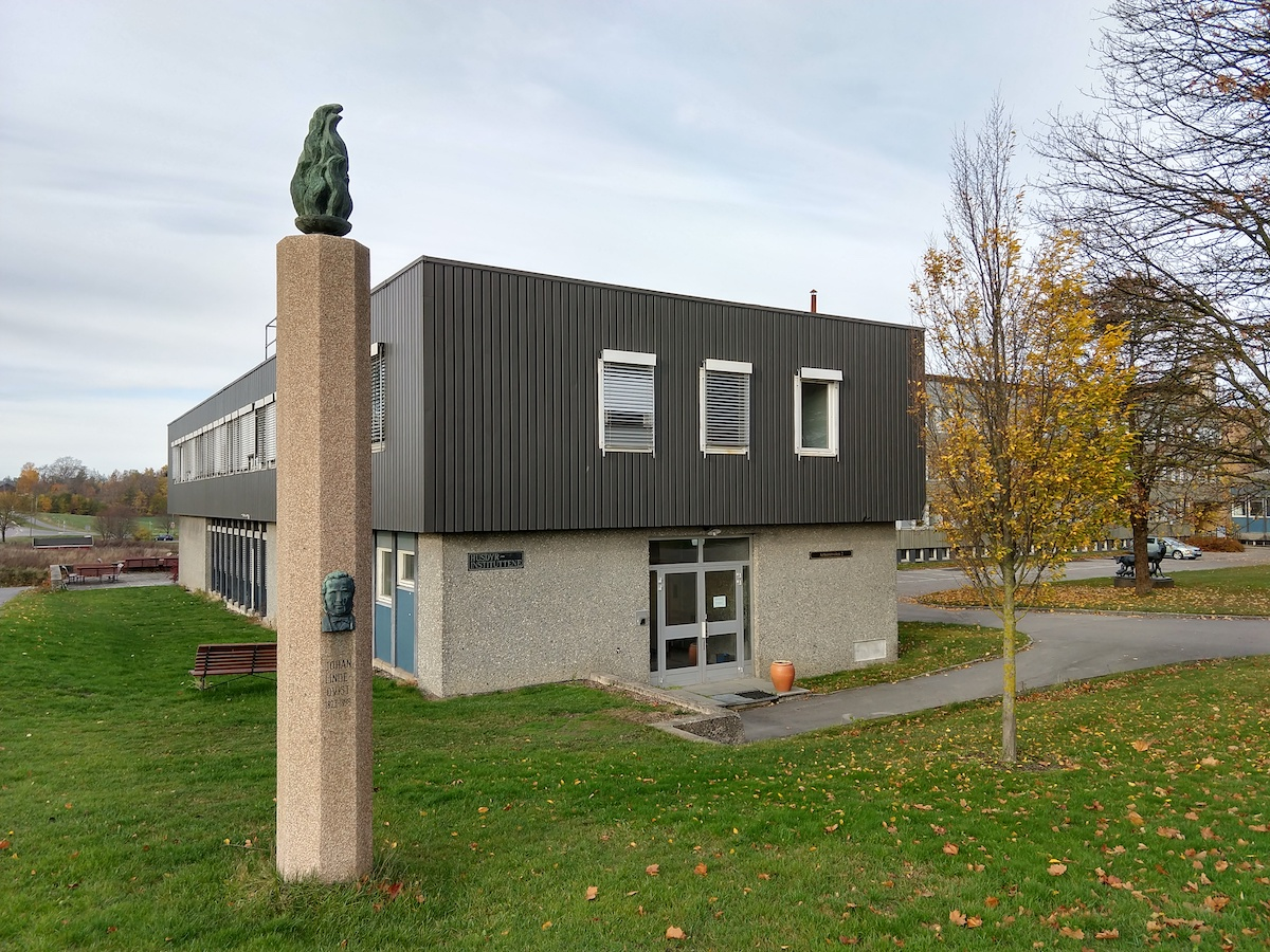 Monument of Norwegian State Agronomist Johan Lindeqvist 1823 – 1898, made by Norwegian Sculptor Arne Durban, raised in 1966.